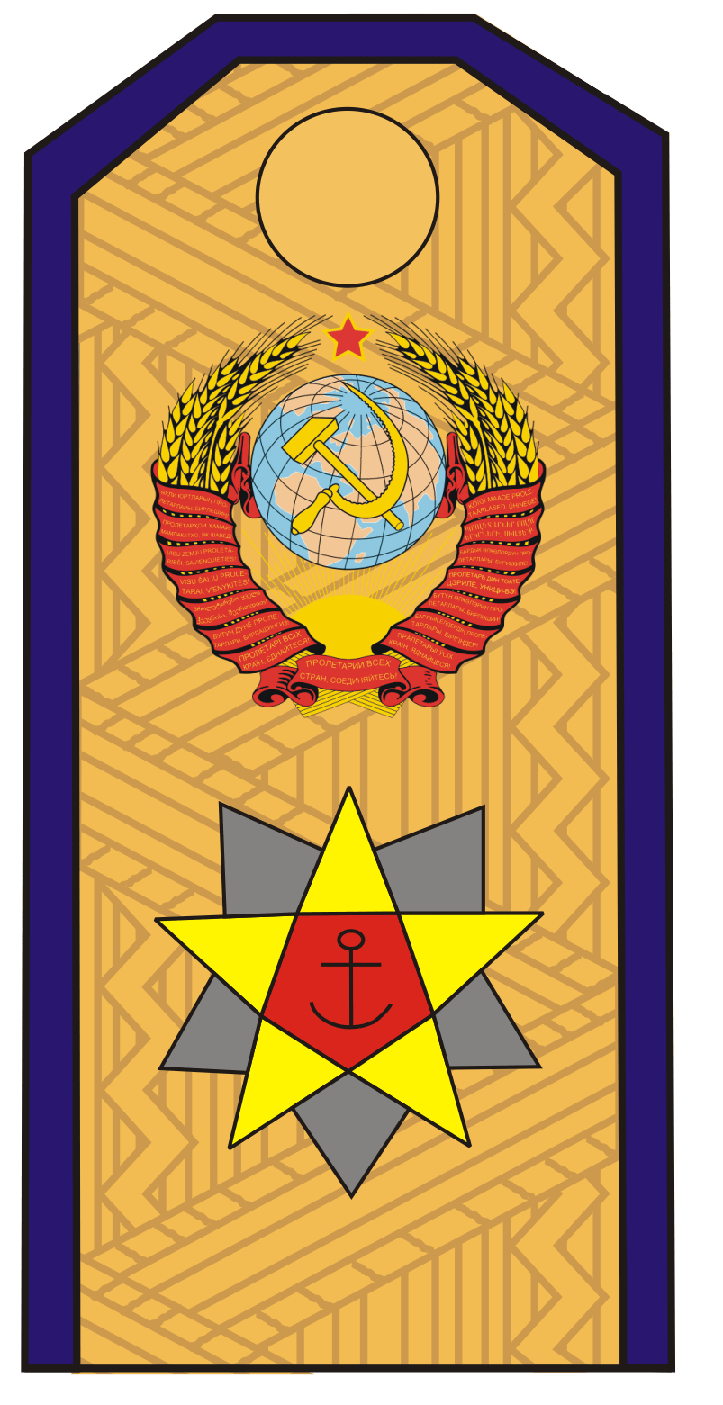 Rank insignia of the USSR Armed Forces/ Sea war fleet (Navy), here since 25 of May, 1945 “Admiral of the fleet” (OF-10) and since March 1955 Admiral of the Fleet of the Soviet Union” – shoulder strap service uniform (1945–1955).